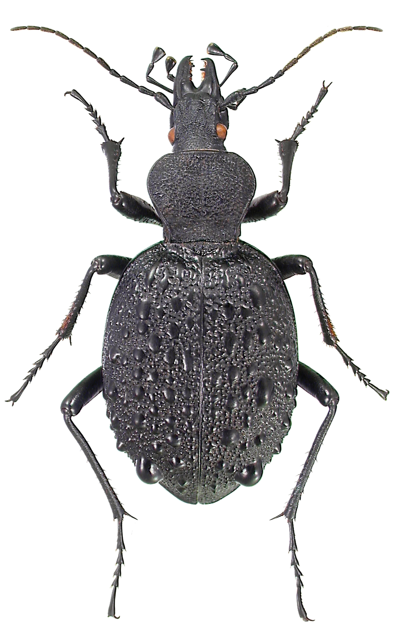 Cychrus tuberculatus (Harris). This species belongs to a genus that contains numerous species in the Palaearctic Region but only two in North America, both west coastal elements. The two species are morphologically very similar and likely sister-species, suggesting that a single ancestral stock crossed Beringia. Stomis and Trechoblemus are other carabid genera well represented in the Palaearctic with a single species each on the West Coast of North America.